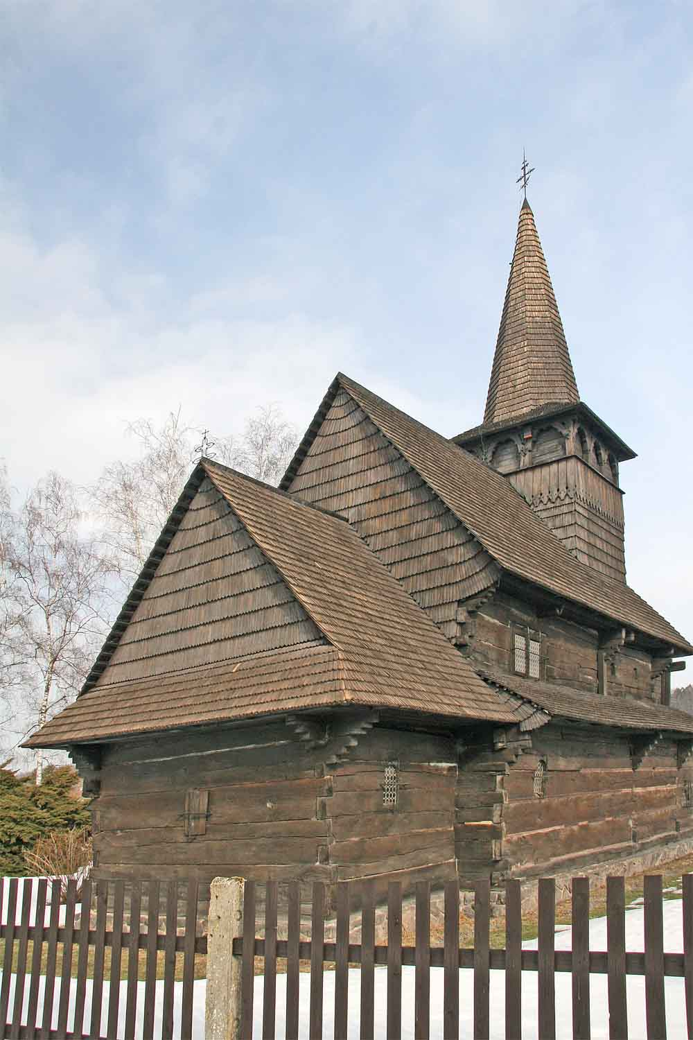 Wooden orthodox church from Subcarpathian Ruthenia, transferred to Dobříkov (today Czech Republic) in 1930.